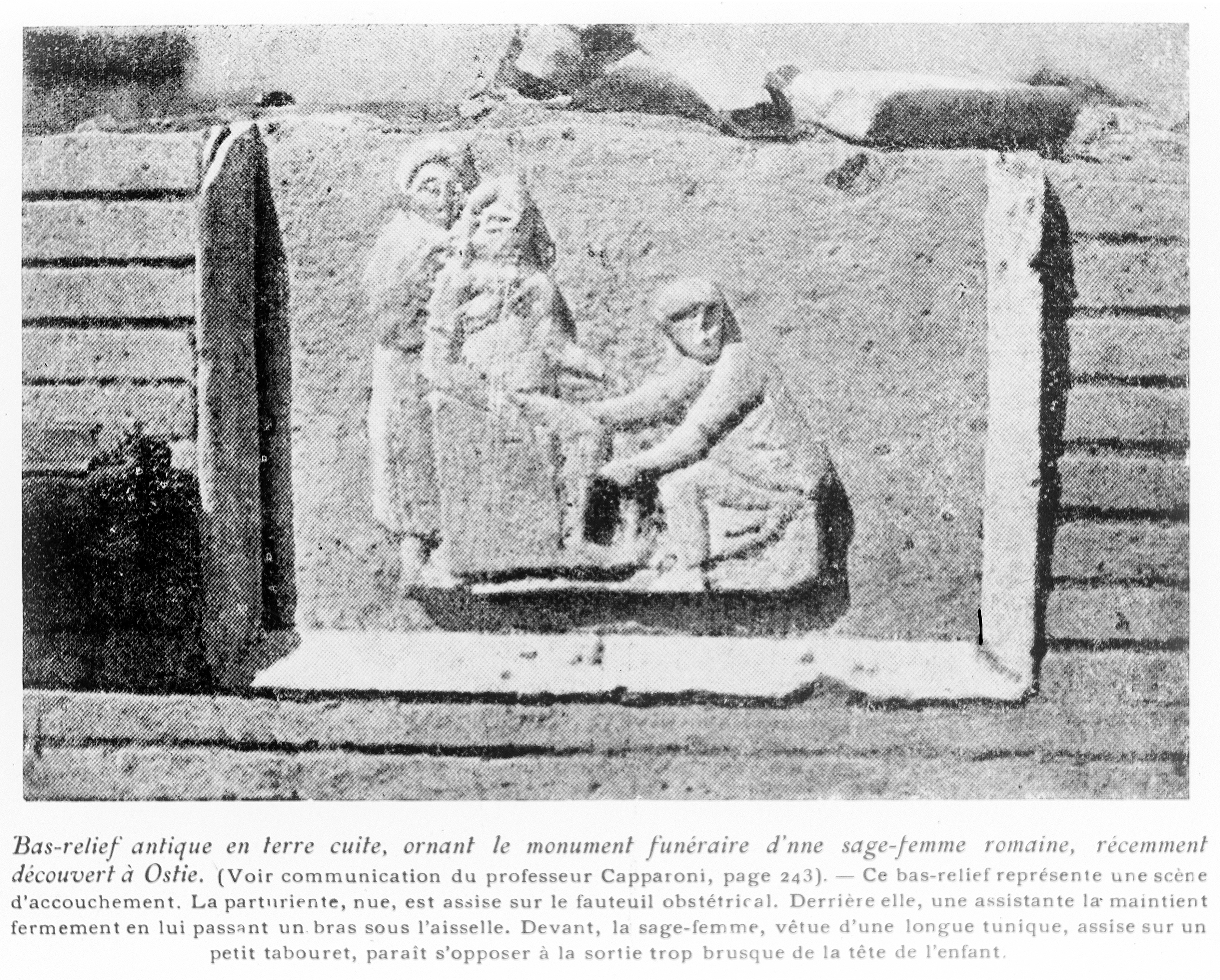 Bas-relief found at Ostia decorating the funeral monument of a Roman mid-wife; antique, in terracotta. General Collections Keywords: Midwifery; roman antiquities; Midwife